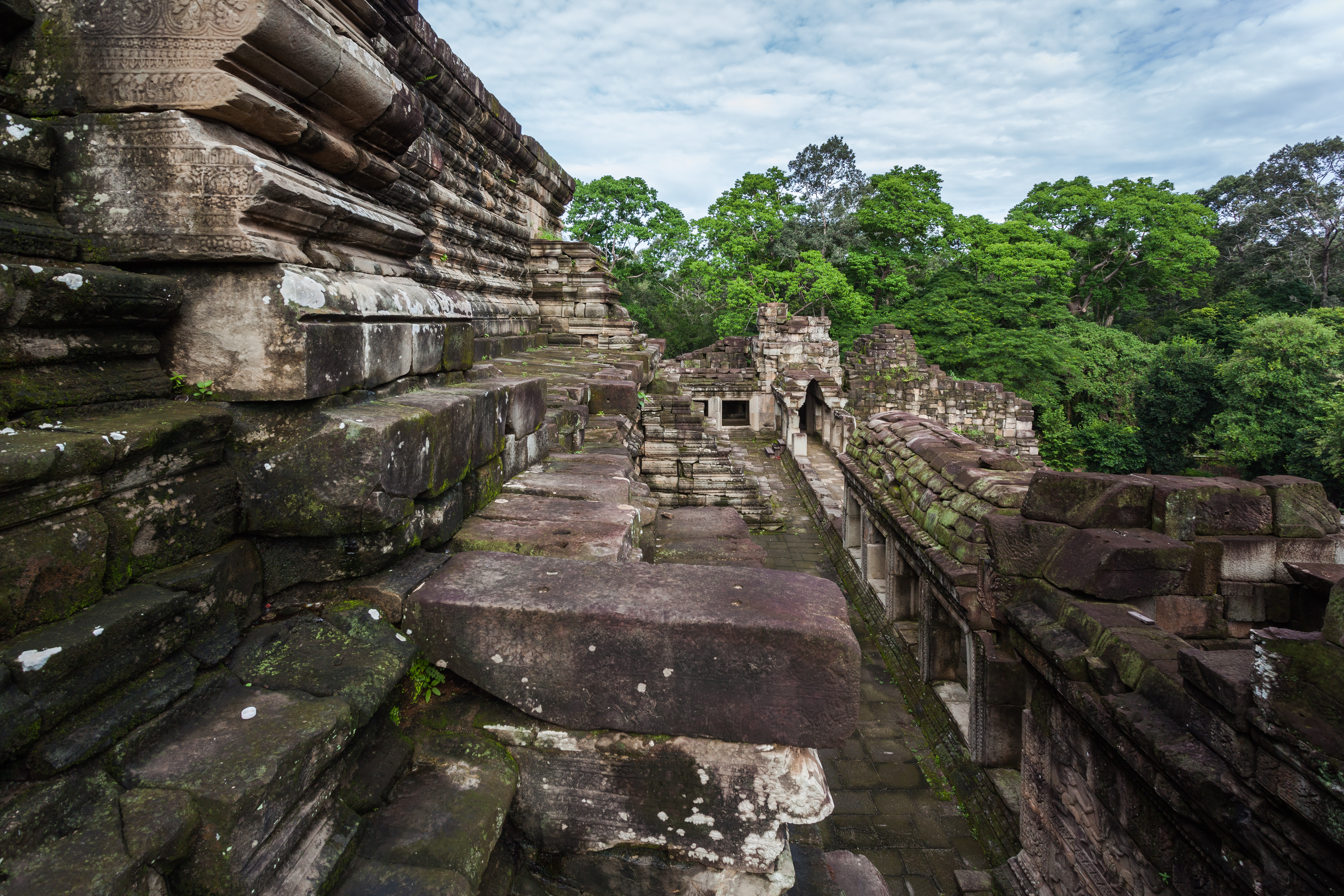 Baphuon, Angkor Thom, Cambodia